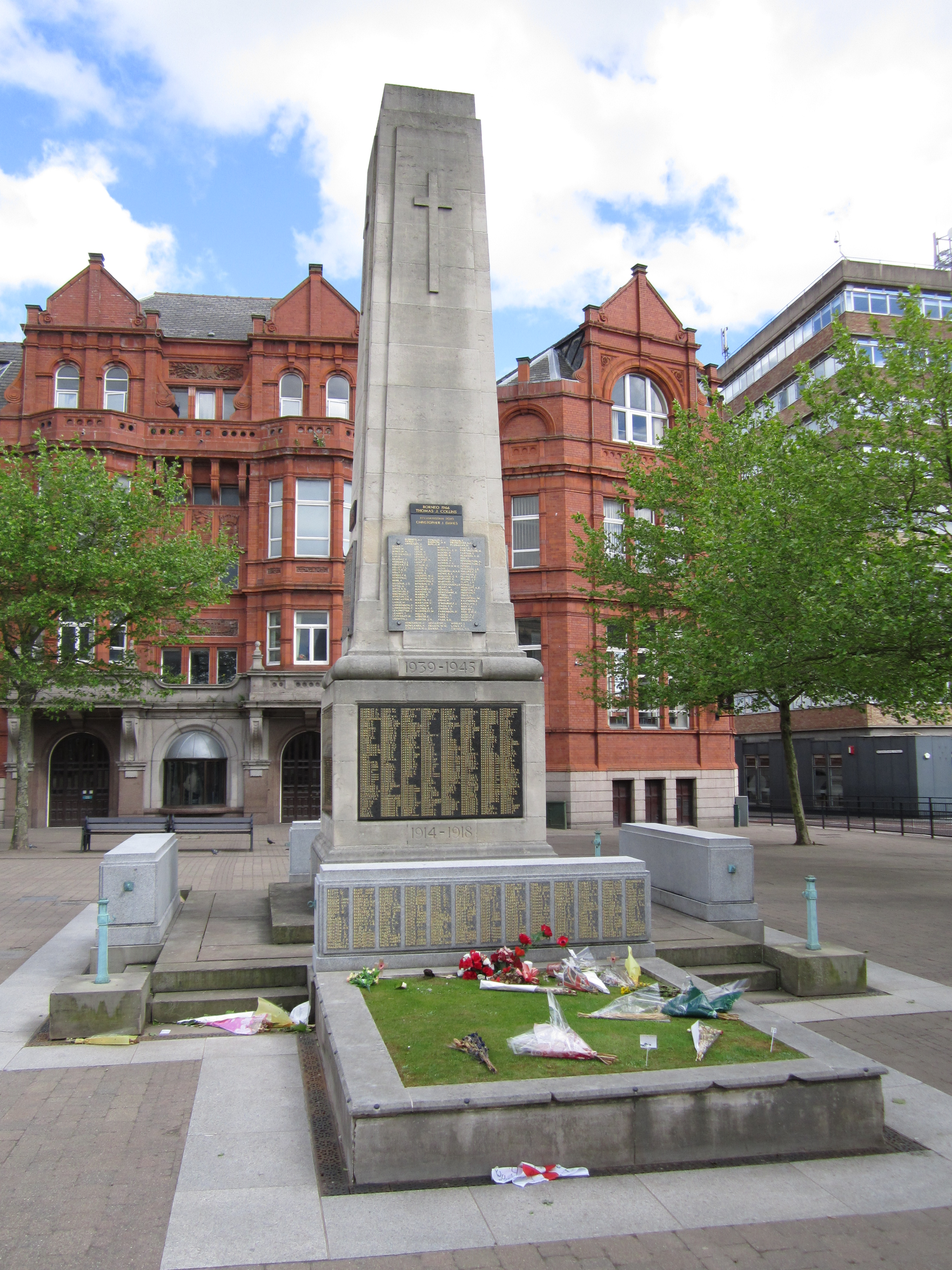 The Cenotaph at Victoria Square, St Helens, Merseyside, England.